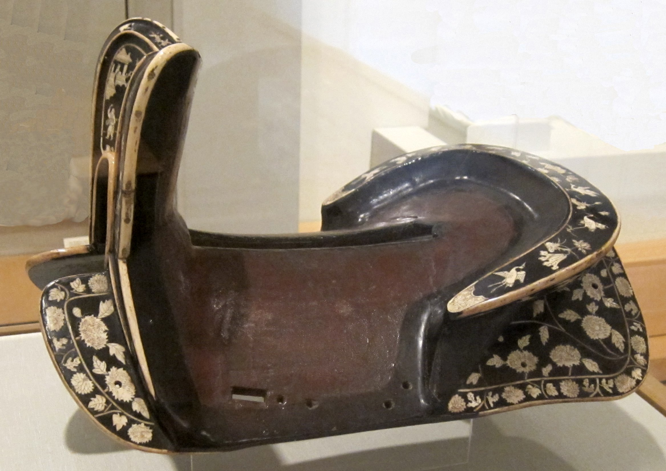 Chinese_saddle,_Ming_dynasty,_Wanli period (1572-1620), wood and lacquer, Honolulu Academy of Arts